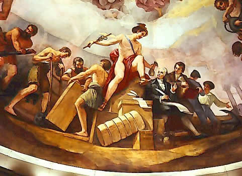 "Commerce": Mercury, god of commerce, with his winged cap and sandals and caduceus, hands a bag of gold to Robert Morris, financier of the Revolutionary War. On the left, men move a box on a dolly; on the right, the anchor and sailors lead into the next scene, "Marine."